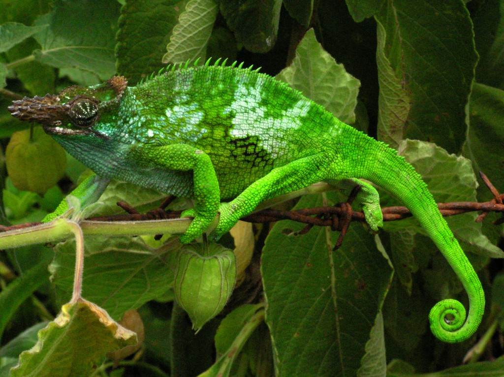 A West Usambara Two-horned Chameleon (two horns), in the Usambara Mountains, Tanzania